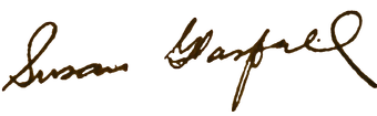 Susan Glaspell's autograph/signature